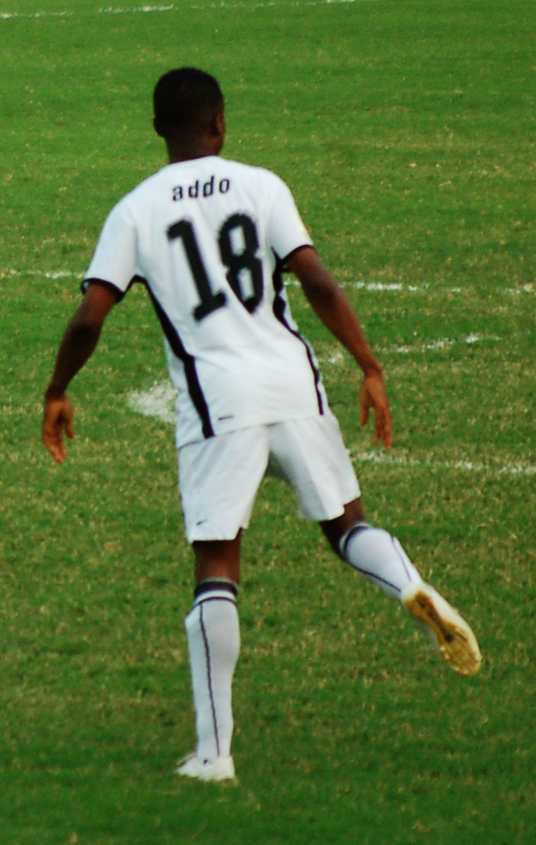 Addo warms up against Nigeria, African Cup of Nations 2008